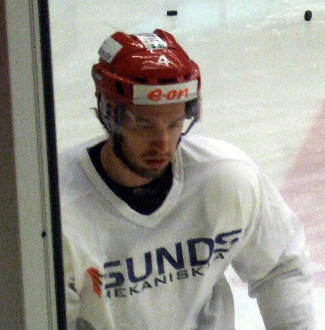 Ice hockey player Robin Jonsson of Timrå IK in E.ON Arena, Timrå, Sweden